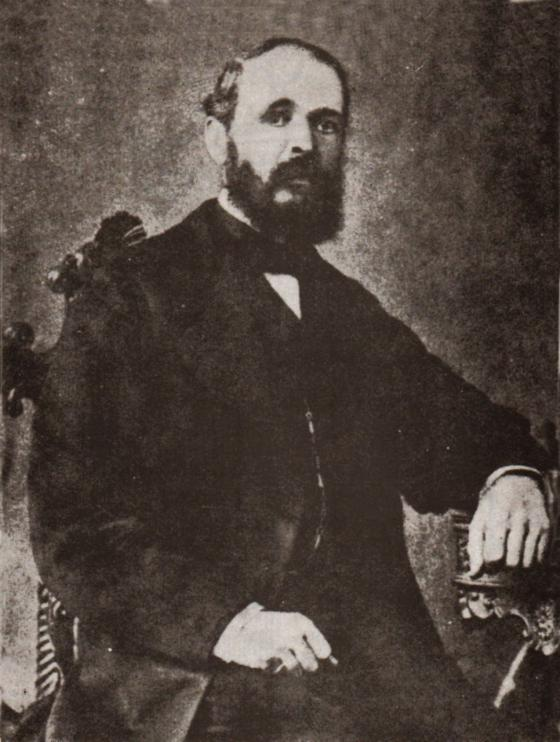 Diogo de Ornelas de França Carvalhal Frazão e Figueiroa, 1st Viscount of Calçada and 1st Count of Calçada (1812-1906), a Portuguese politician.